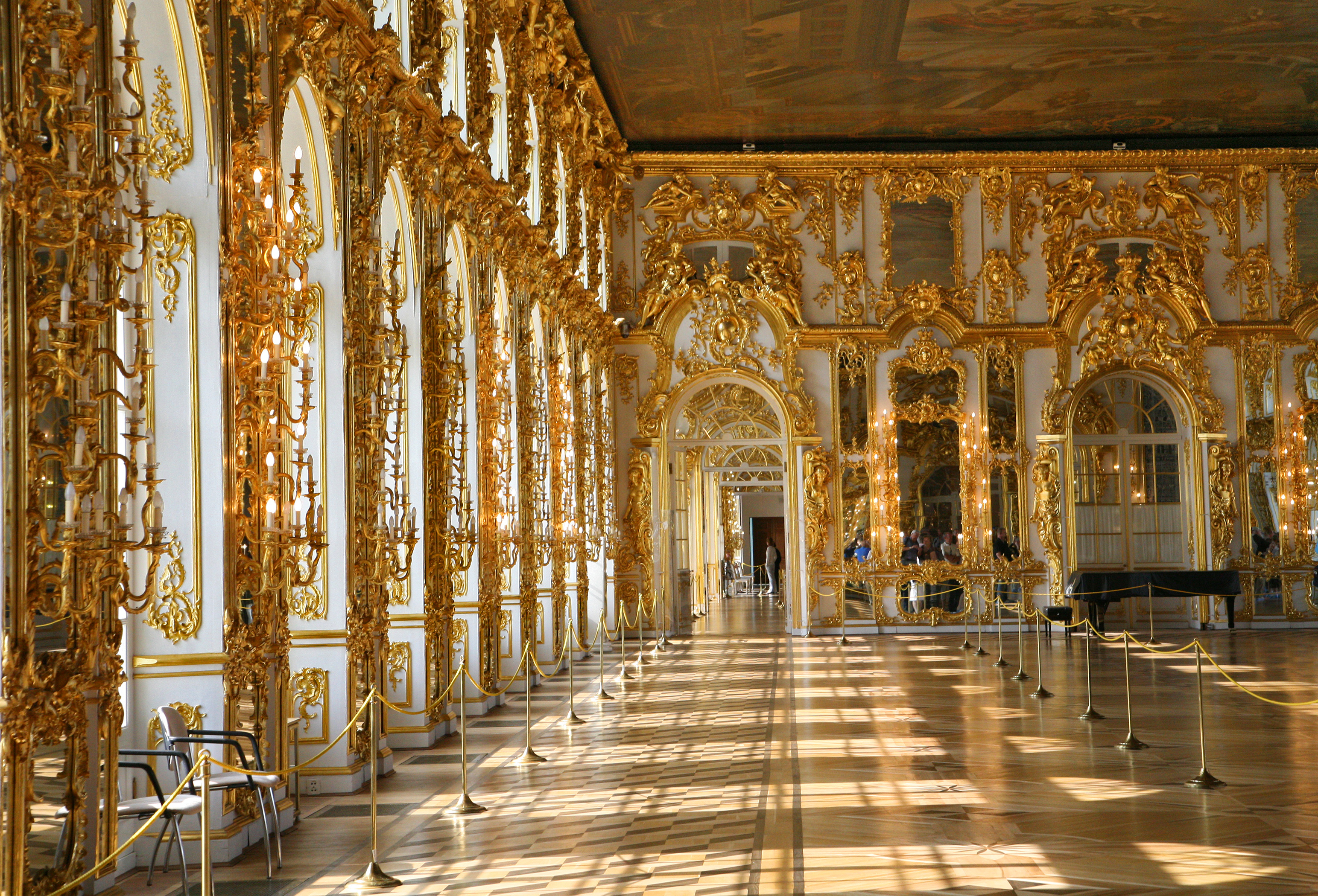 Katharinenpalast - Ballsaal: The Katharinenpalast in Pushkin was once the Russian tsar residency. The Palais is located in the Katharinenpark, a landscape park.